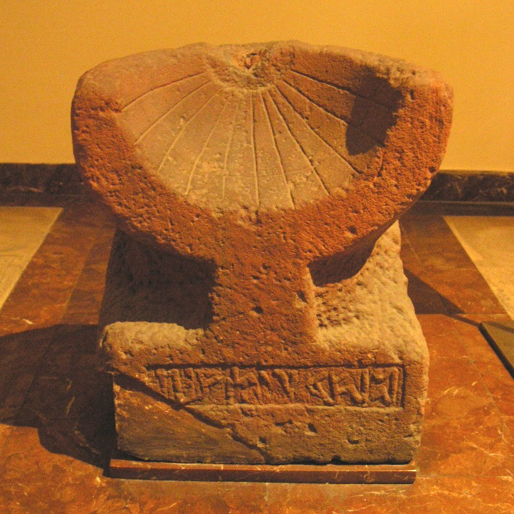 Sundial with Aramean Inscription, Sandstone, 1st. Cent. B.C., found in Madain Saleh; Istanbul Archaeological Museums - Museum of the Ancient Orient, Inv. No. 7664